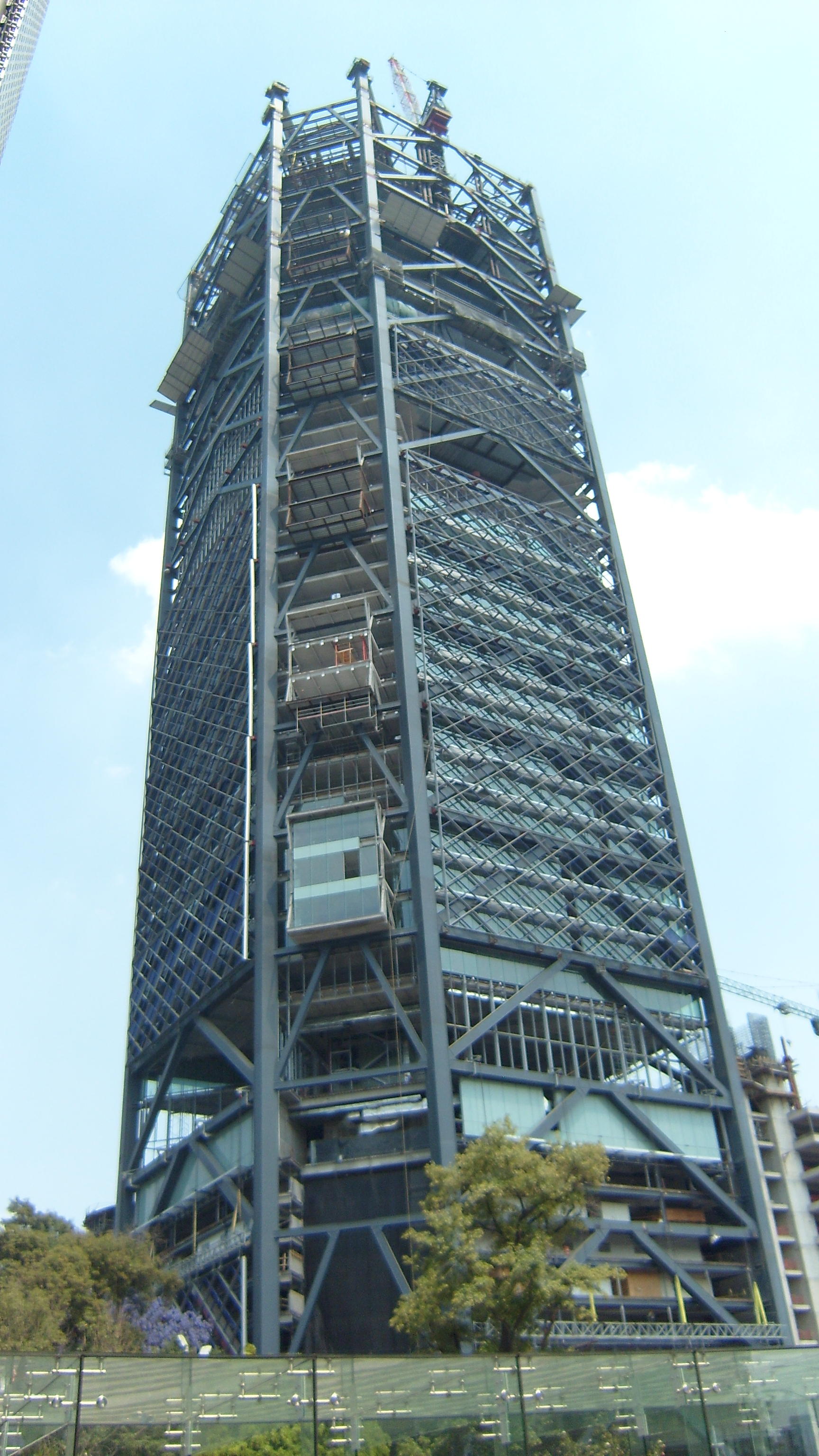 TorreBancomer 21-03-2014